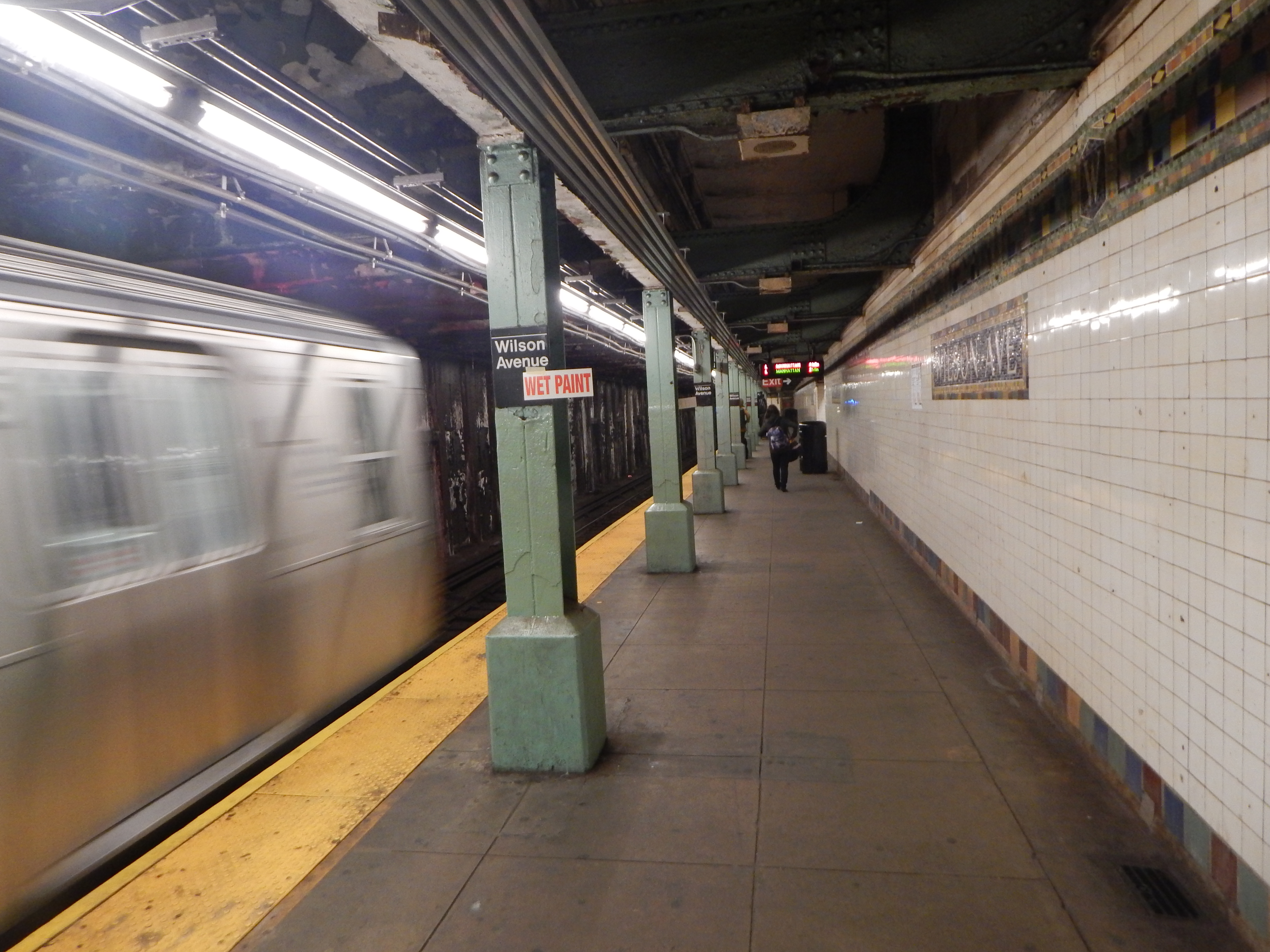 Bushwick, Brooklyn, New York